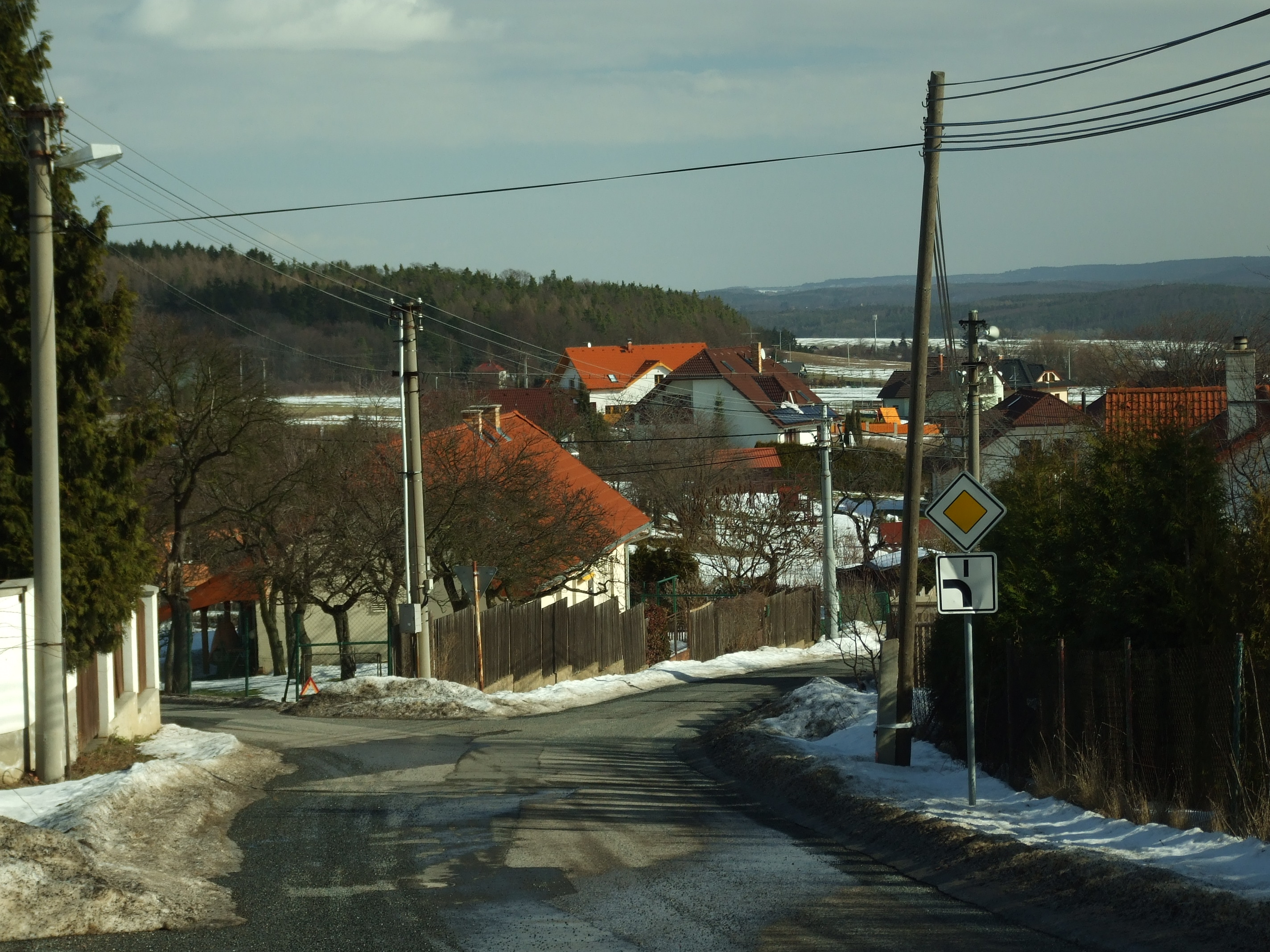 Zahořany village near Mníšek pod Brdy in Central Bohemian Region, CZ